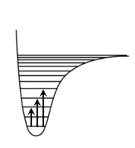 NIR transitions